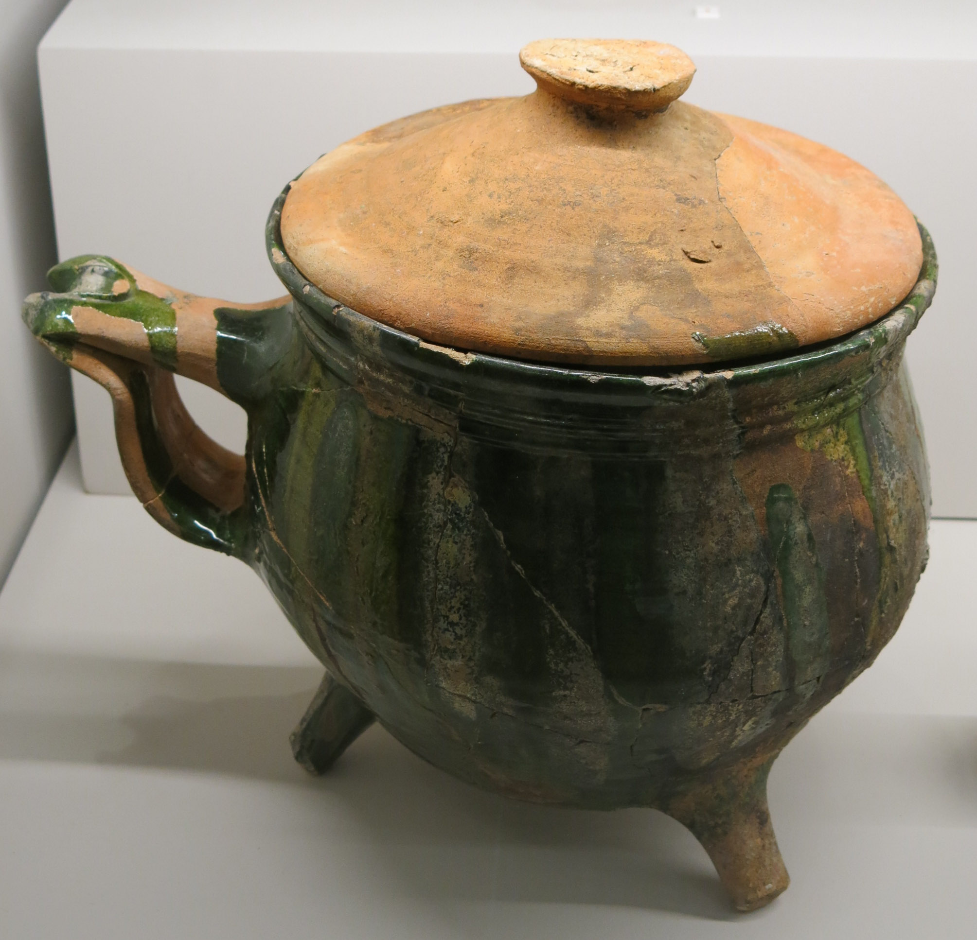 Marmite (cooking dish). 1625-1650.. Found during the excavations of the Louvre castle for the creation of the Pyramid and exhibited in the medieval Louvre (Paris, France).